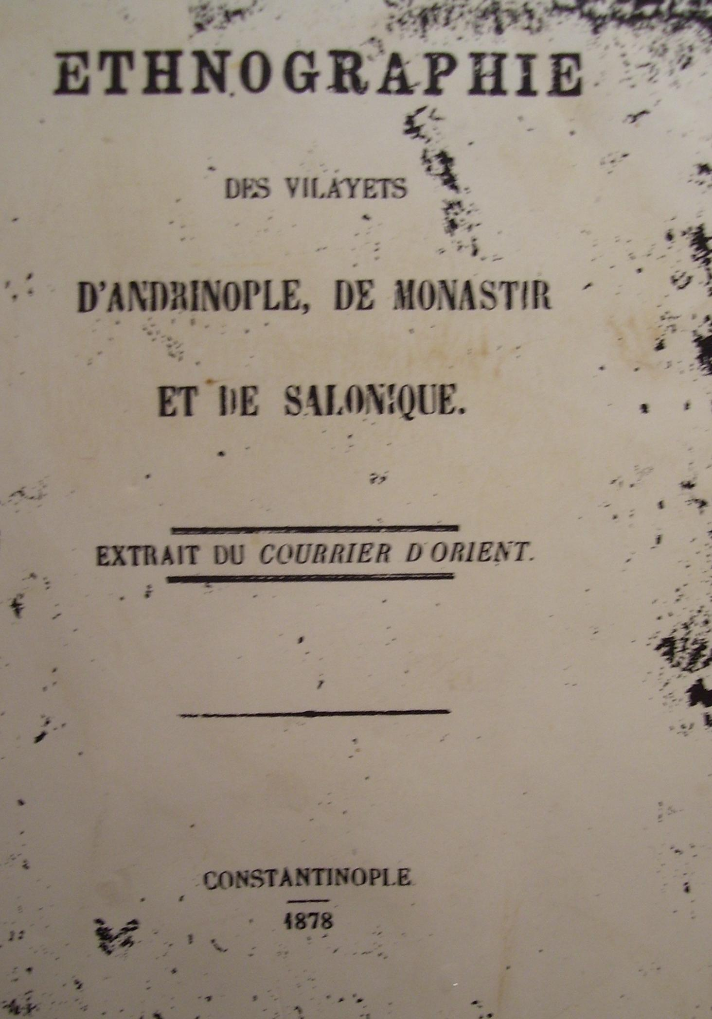 Front cover of "Ethnographie des Vilayets d'Adrianople, de Monastir et de Salonique", Constantinople, 1878